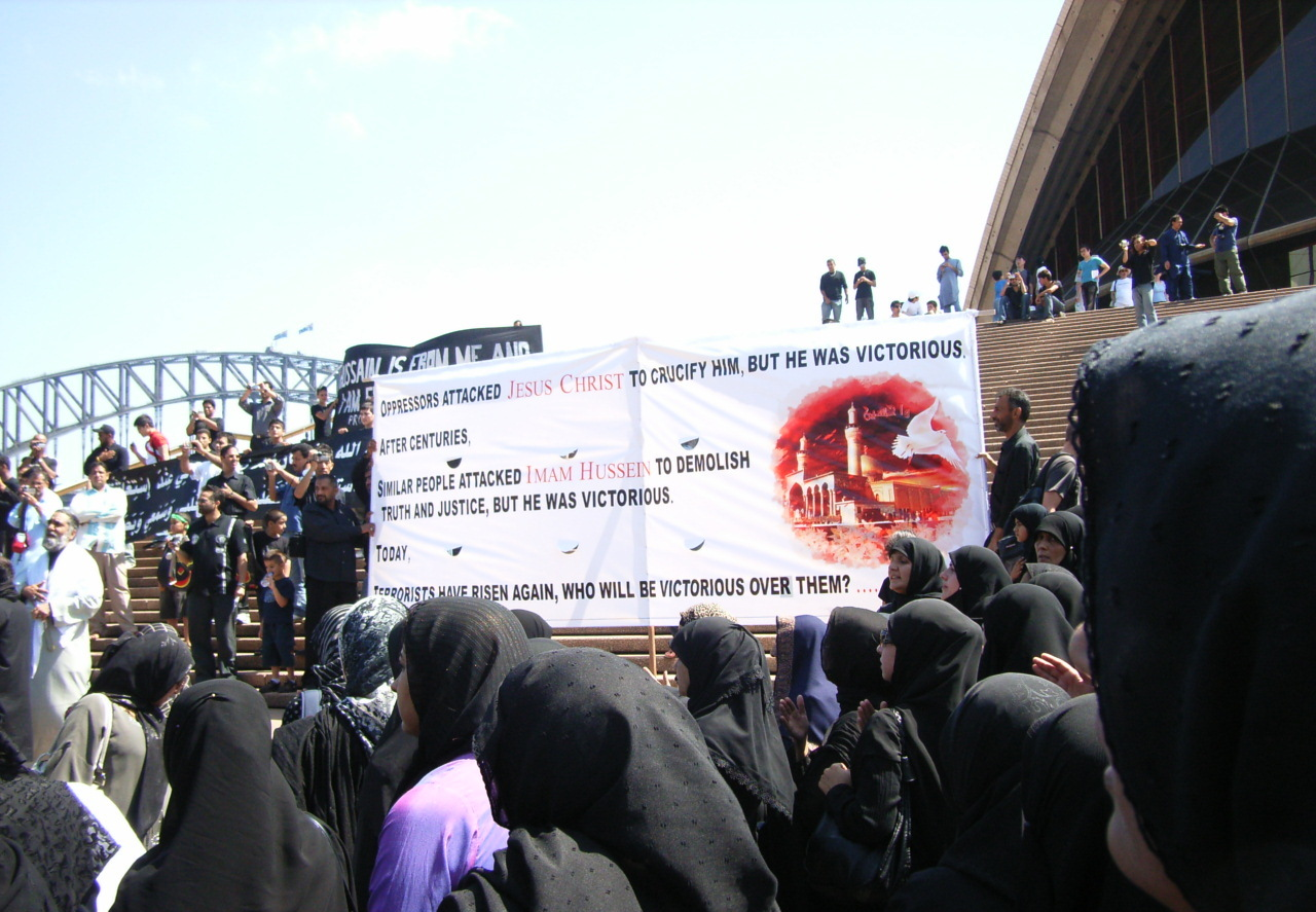 Shi'a devotees in Sydney, Australia congregate outside of the Opera House to honour the memory of Imam Hussein